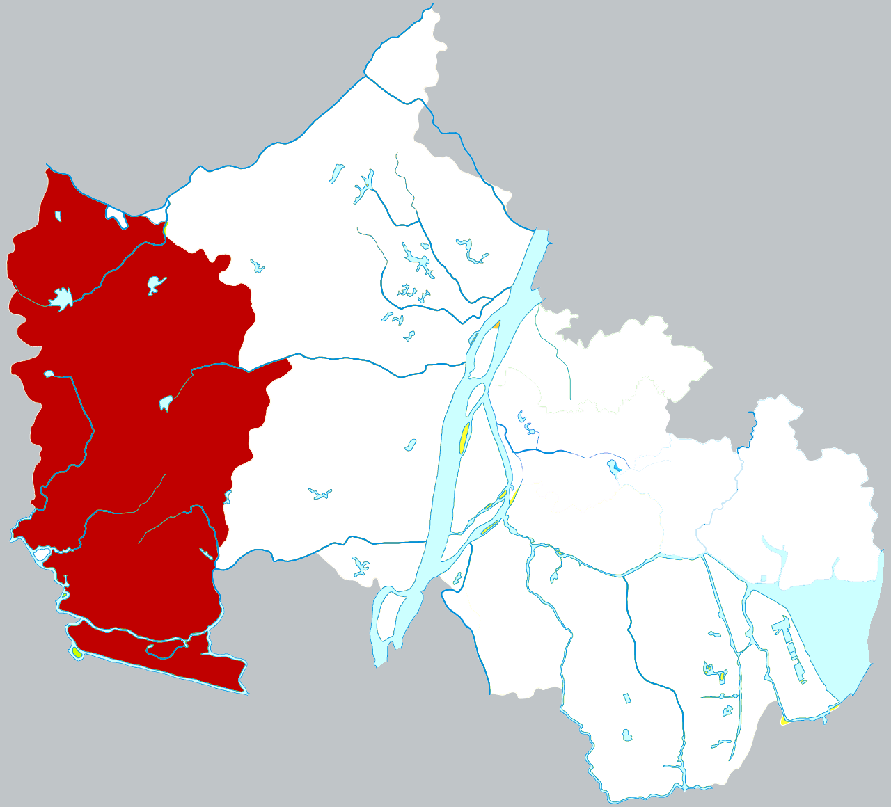 Location of Hanshan county in Ma'anshan city, China